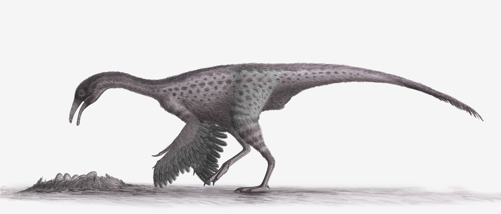 Harpymimus restoration, • Based proportionally on a skeletal reconstruction by Jamie Headden. • Three specimens of Ornithomimus preserve evidence of feathers, including evidence of pennaceous feathers on the arms. [1] This image goes under the assumption that Harpymimus were also covered in feathers. • This image is not meant to imply egg snatching behaviour. • The colours and/or patterns, as with nearly all reconstructions of prehistoric creatures, are speculative. Note: I often update my images; If you want to post this image on other websites, if possible, please link to the original file here. This will allow others to see the most recent version. Thanks. References ↑ (2012). "Feathered Non-Avian Dinosaurs from North America Provide Insight into Wing Origins". Science 338 (6106): 510.